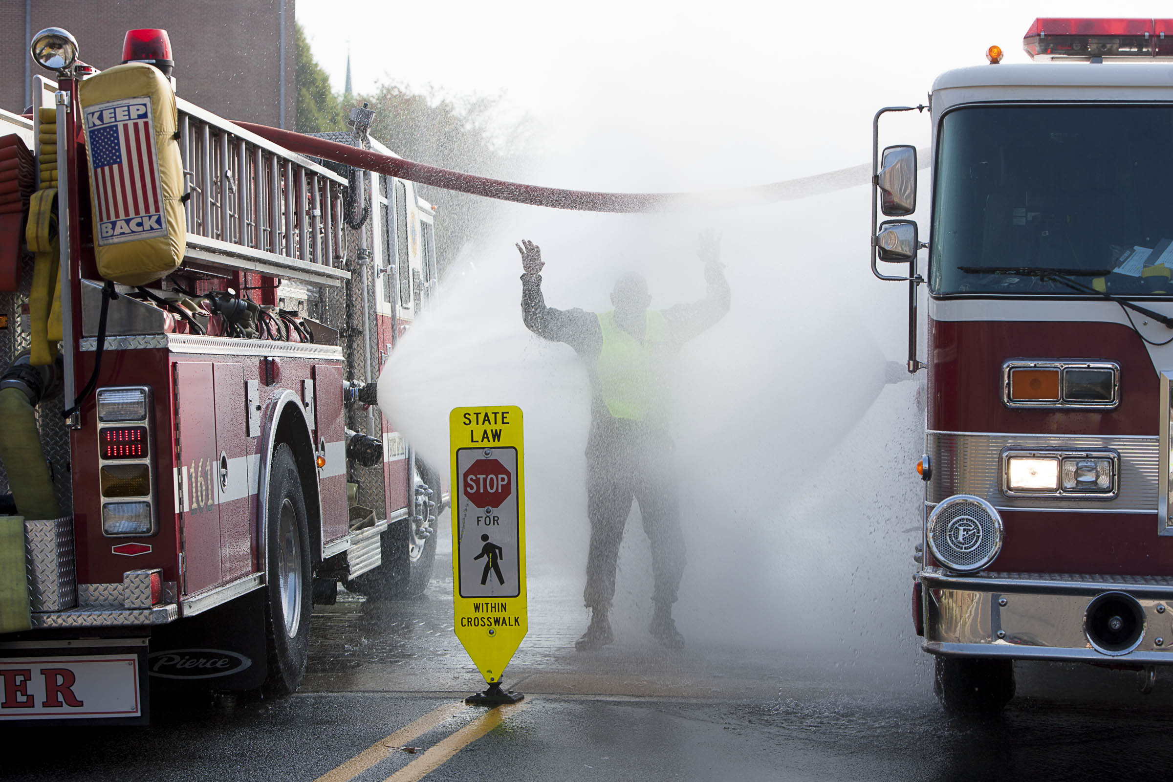 A simulated full-scale hazardous response exercise at Joint Base Myer-Henderson Hall in Arlington County, Virginia, in the United States. Specialist Edgar Rodriguez of the 529th Regimental Support Company walks through a hazardous materials decontamination station set up by fire and rescue personnel.